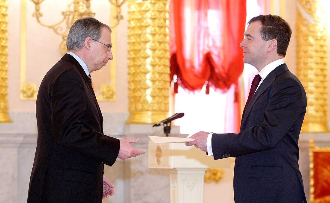 GRAND KREMLIN PALACE, MOSCOW. Presentation by foreign ambassadors of their letters of credence. Dmitry Medvedev receives a letter of credence from Ambassador of the Principality of Monaco Claude Giordan.